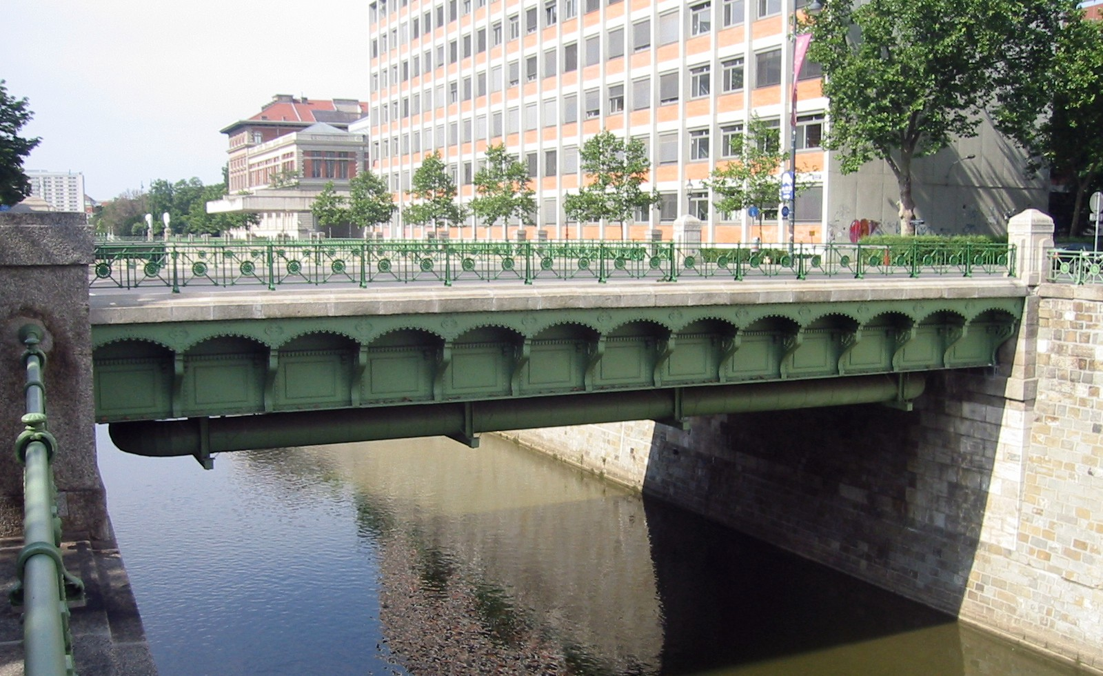 Vienna, Kleine Marxerbrücke crossing the Vienna river